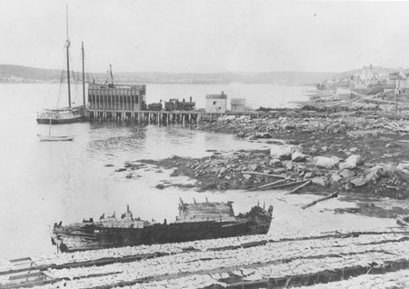 "Fish curing and Boston Richardson's Gold Co. wharf" / Goldboro, NS. A train is seen coaling on the wharf near a waiting schooner.